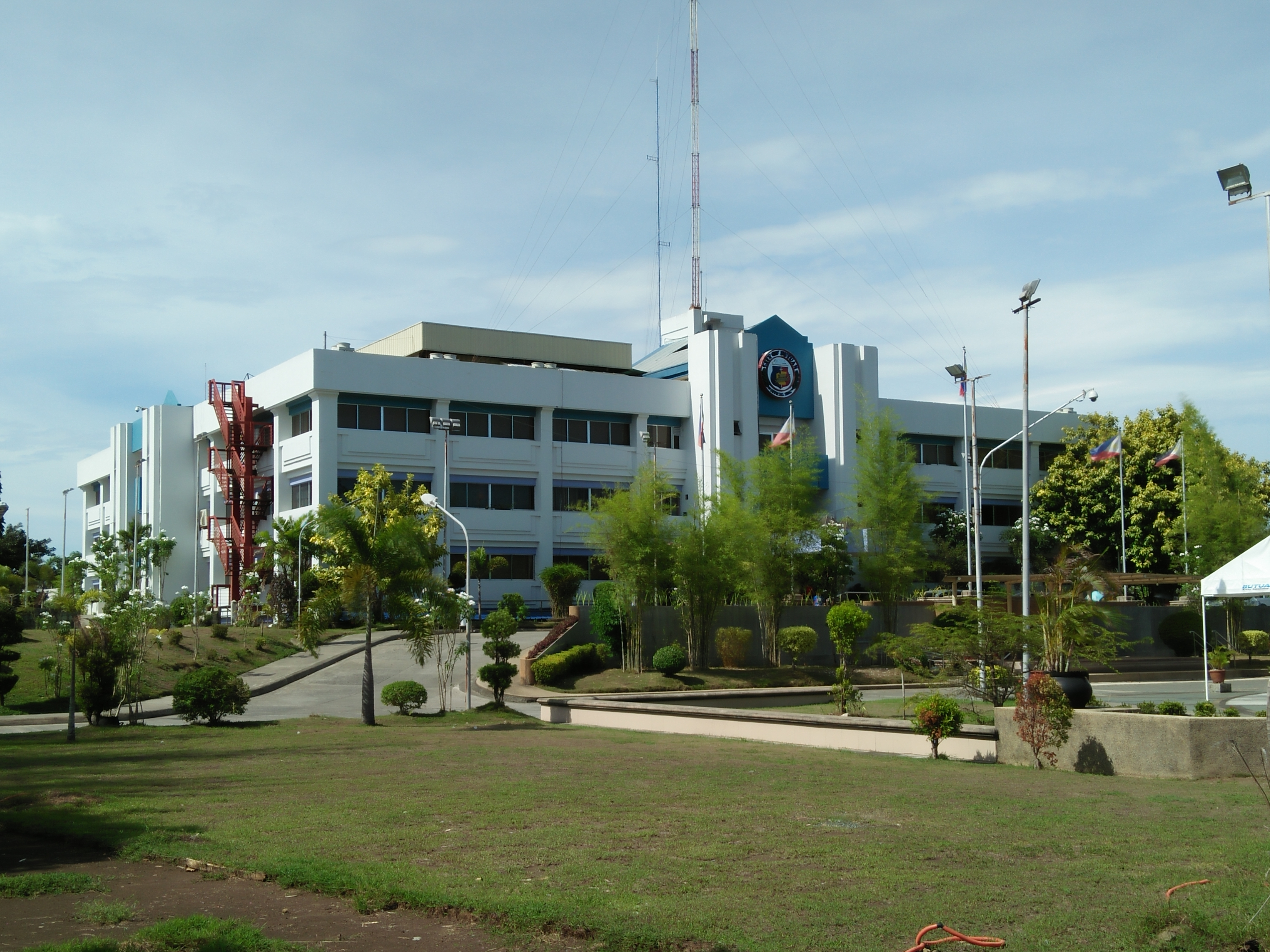 Butuan City Hall as of September 25, 2018